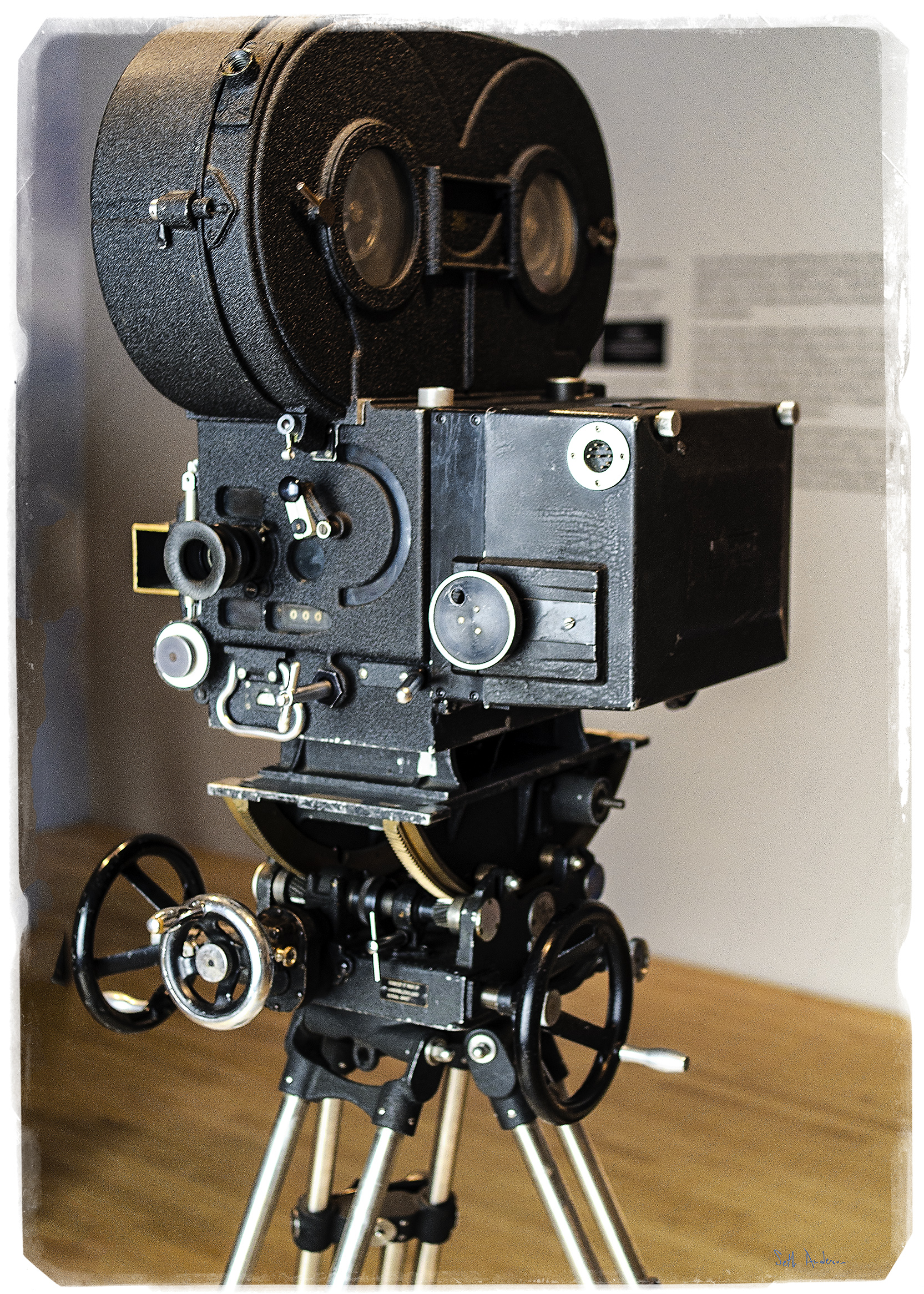 Stanley Kubrick's "A" camera at the LACMA exhibit (Possibly from Barry Lyndon)